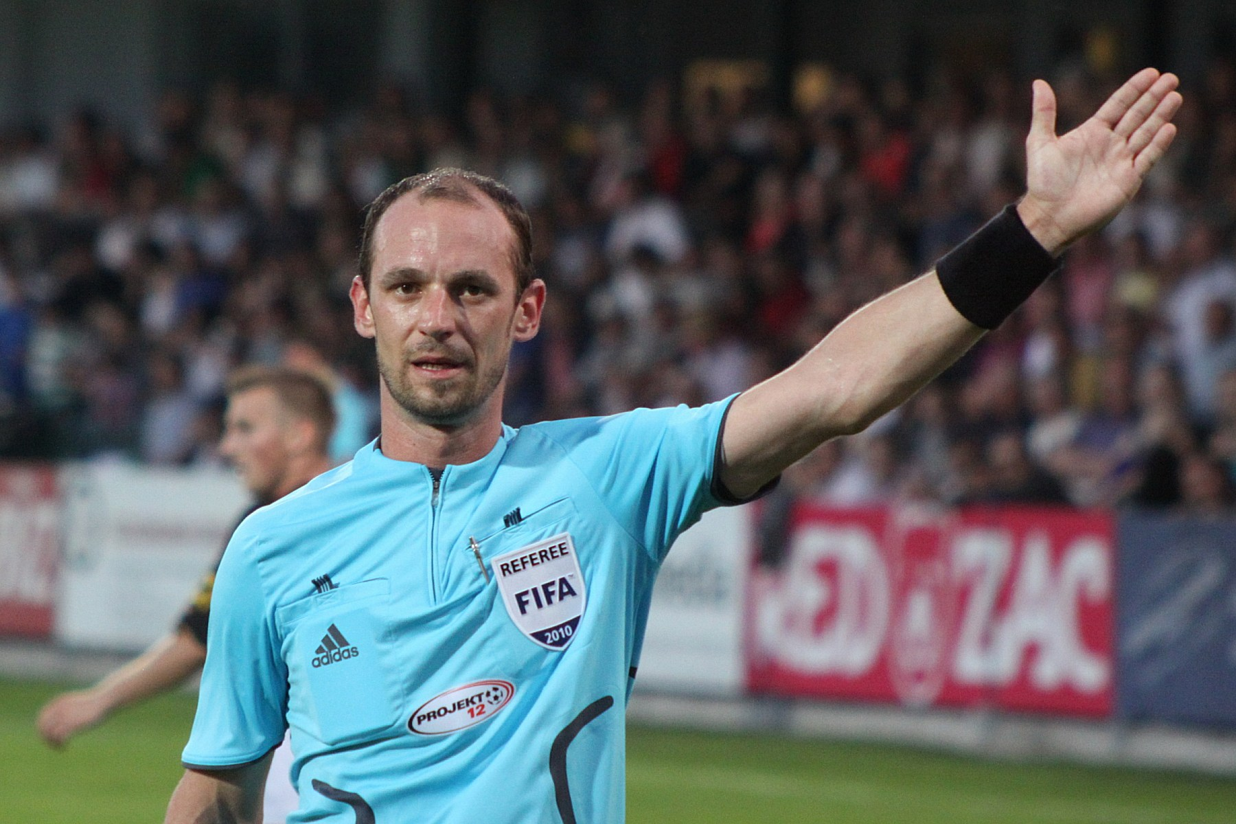 Oliver Drachta - Referee (association football) of Austria